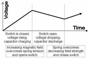 График_излазног_напона_на_временској_скали_етф.jpg